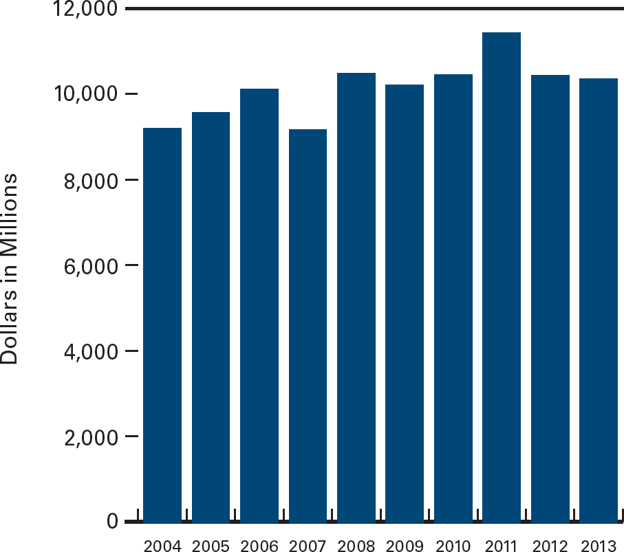 Budget of the National Reconnaissance Office for Fiscal Years 2004 to FY2013 (2012 Congressional Budget Justification)